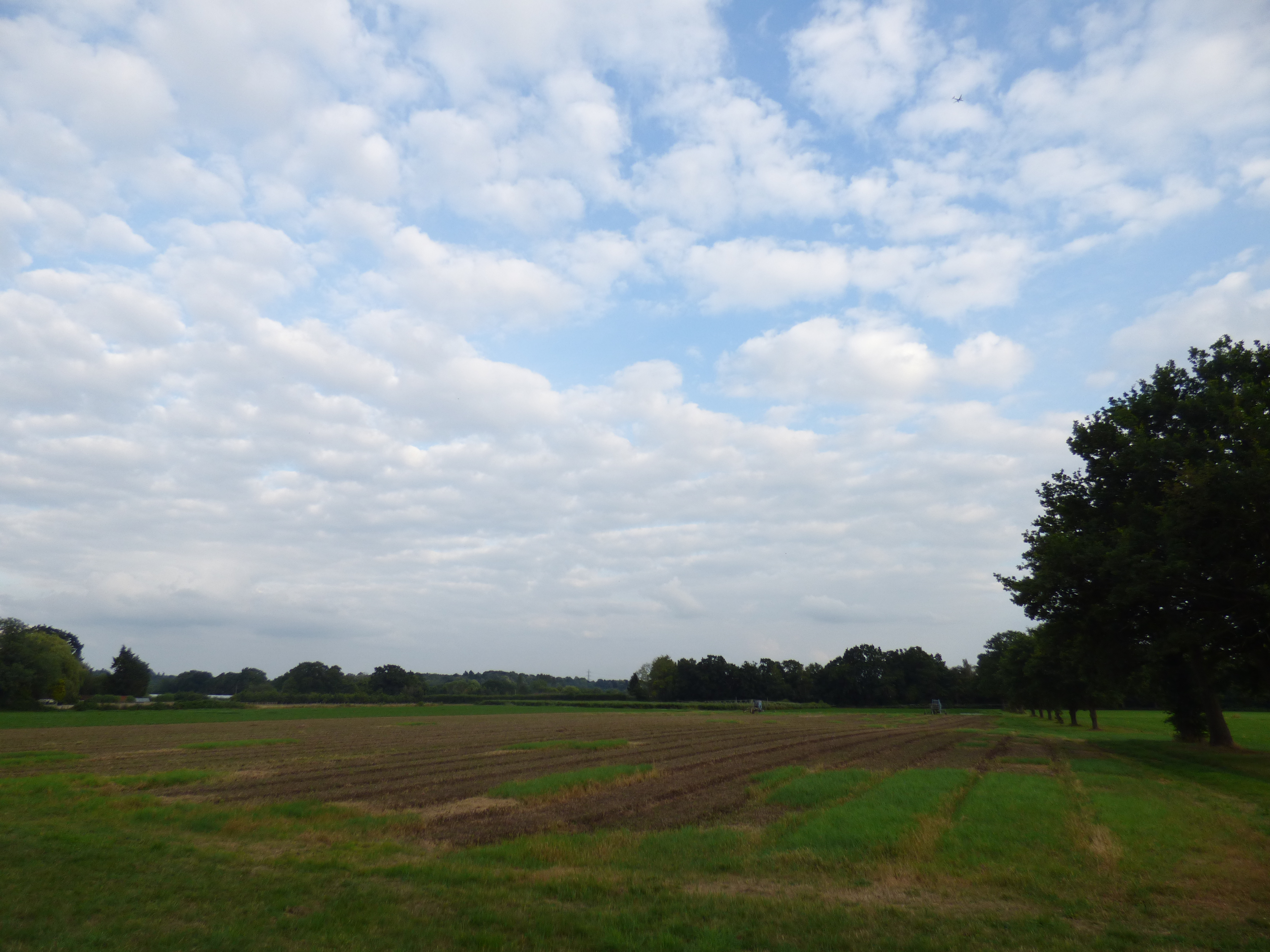 Fields in Hersham that are used to grow mint